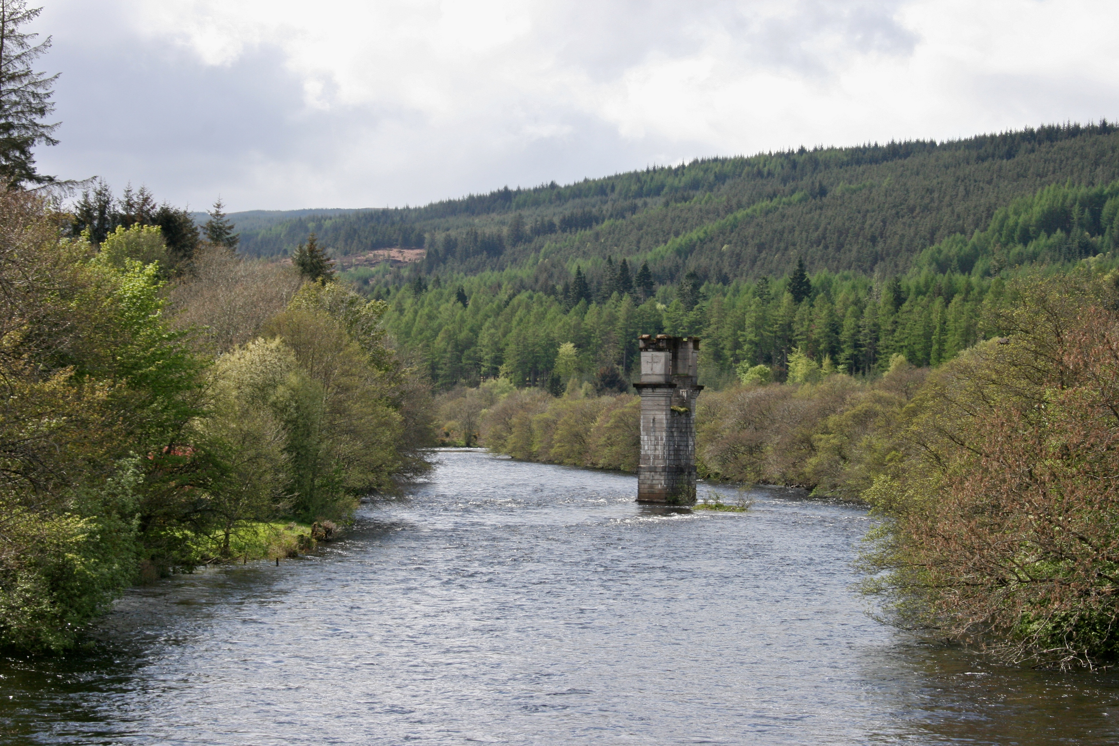 Invergarry and Fort Augustus Railway bridge over the River Oich 2009.